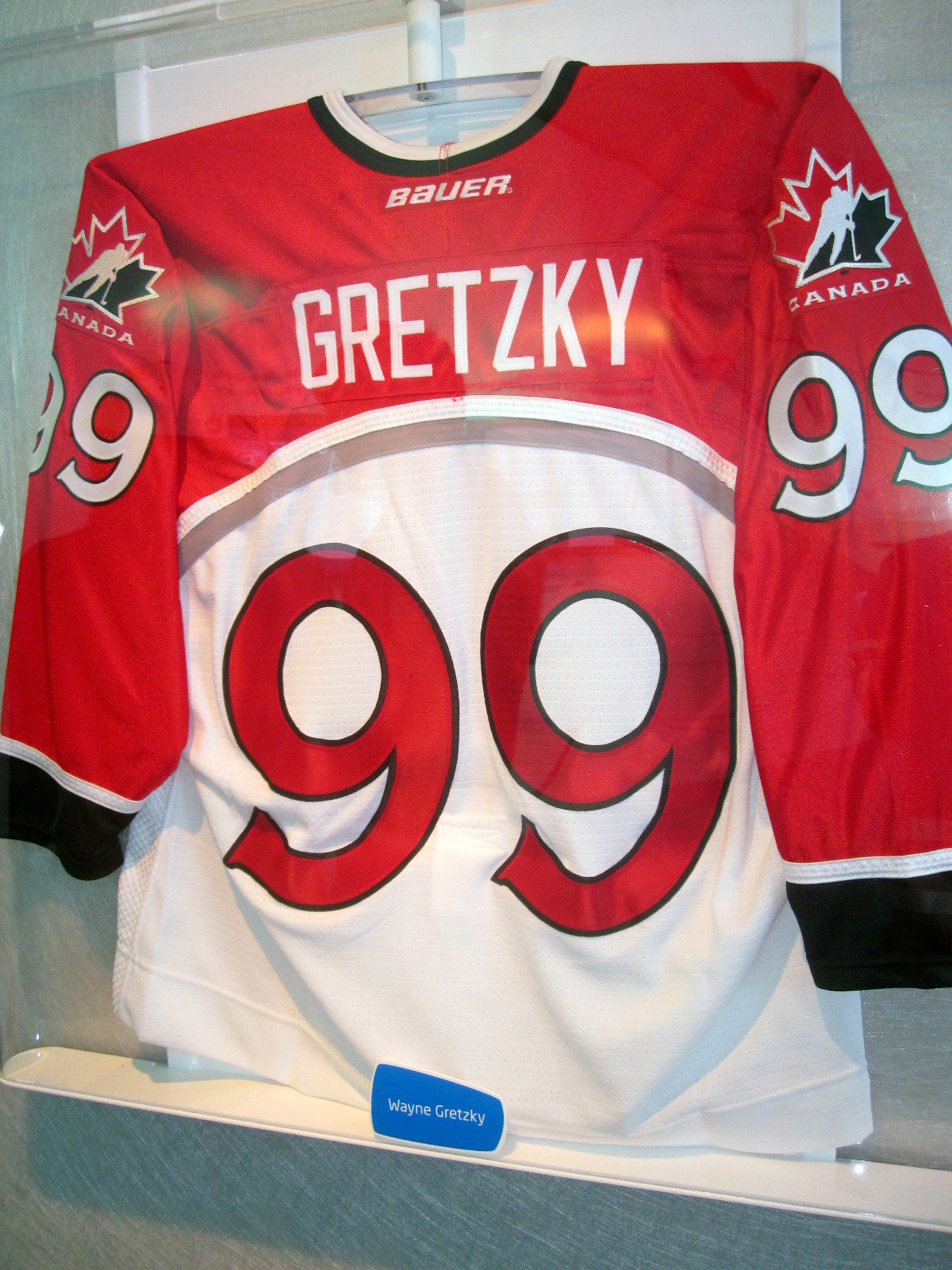 Team Canada jersey worn by Wayne Gretzky during the 1998 Winter Olympics on display at LiveCity Downtown during the 2010 Winter Olympics in Vancouver.